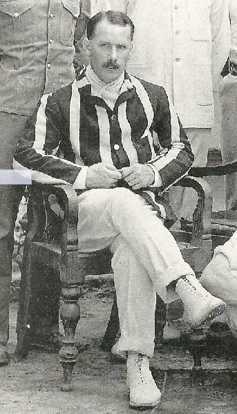 Lt Charles Harry Lyon, adjutant of the 2nd Battalion The Prince of Wales (North Staffordshire Regiment) pictured in cricket clothing Multan, India 1908.